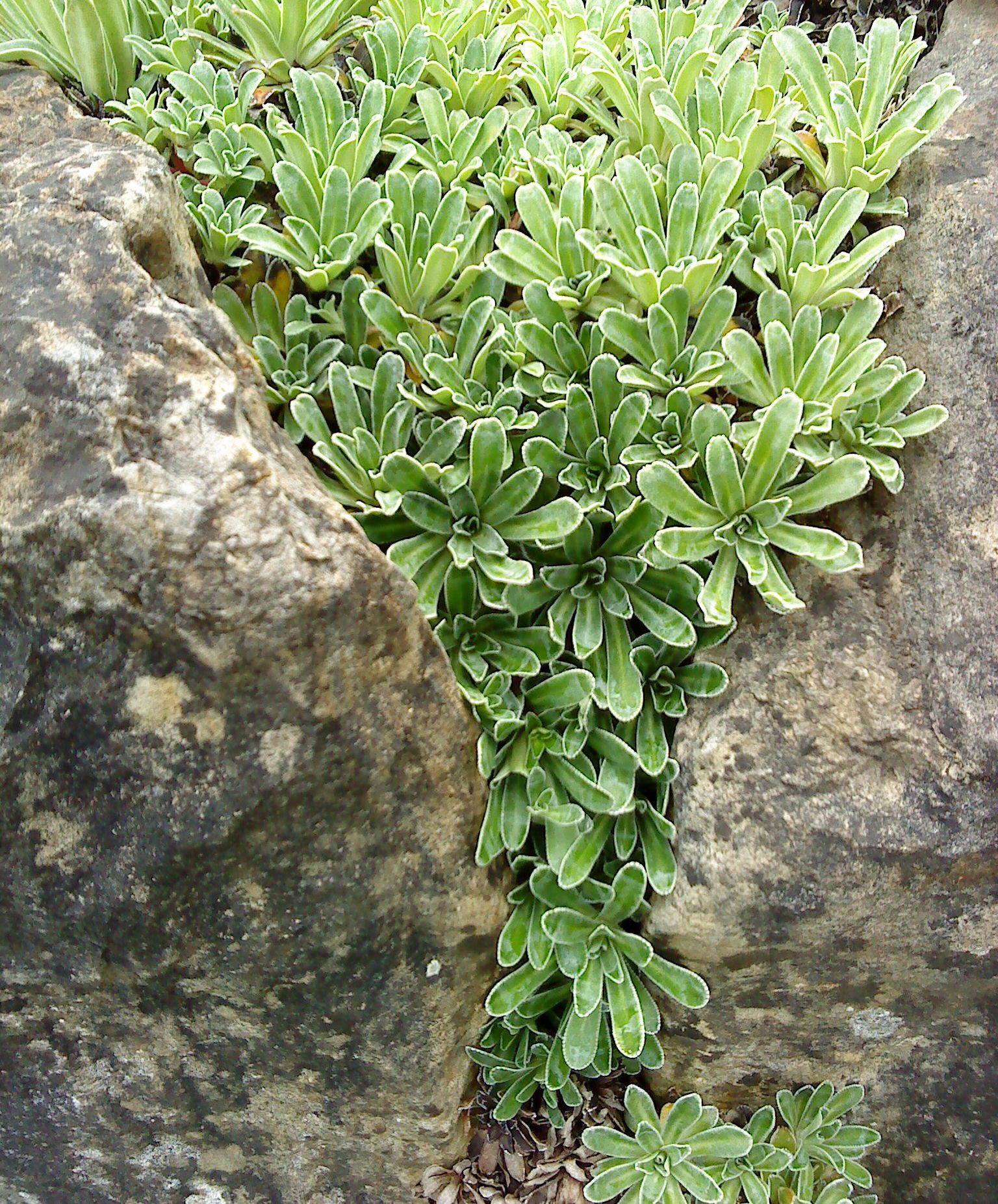 Saxifraga hostii